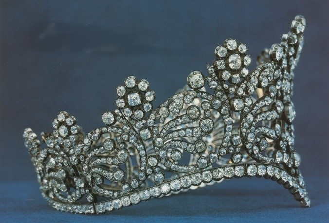 Imperial diadem of Joséphine de Beauharnais.